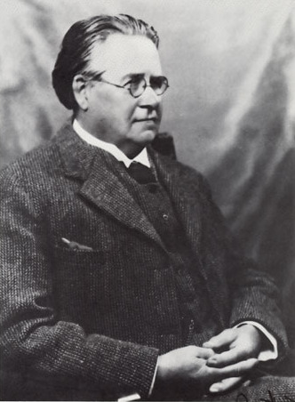 William Fredrick Frohawk